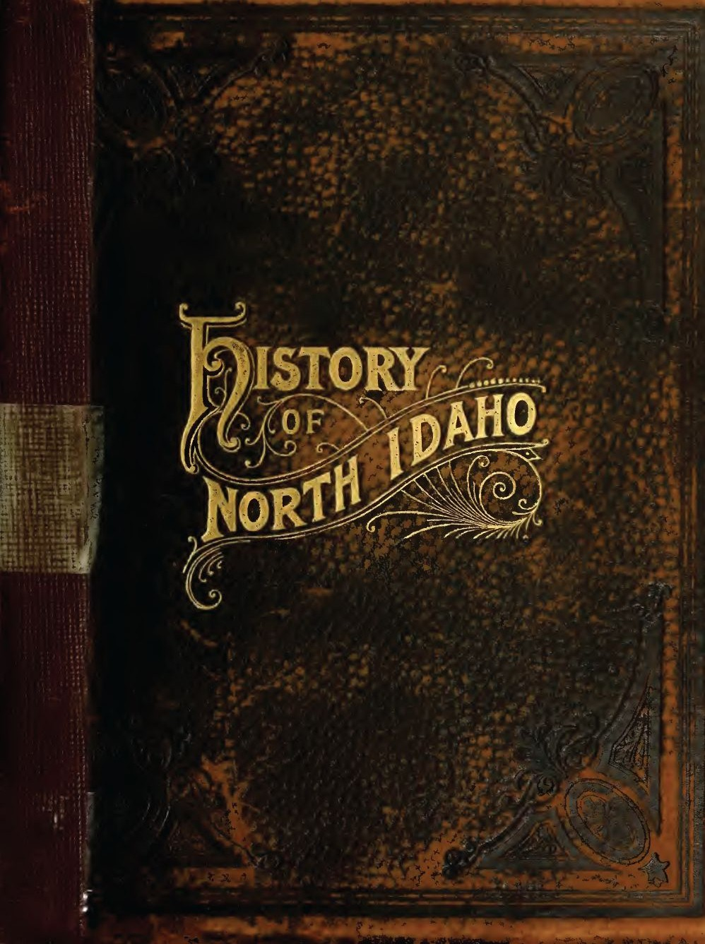 Book Cover from: * (1903) An illustrated history of north Idaho: embracing Nez Perces, Idaho, Latah, Kootenai and Shoshone counties, state of Idaho, Western Historical Pub. Co.